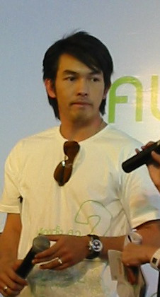 Atichart Chumnanond